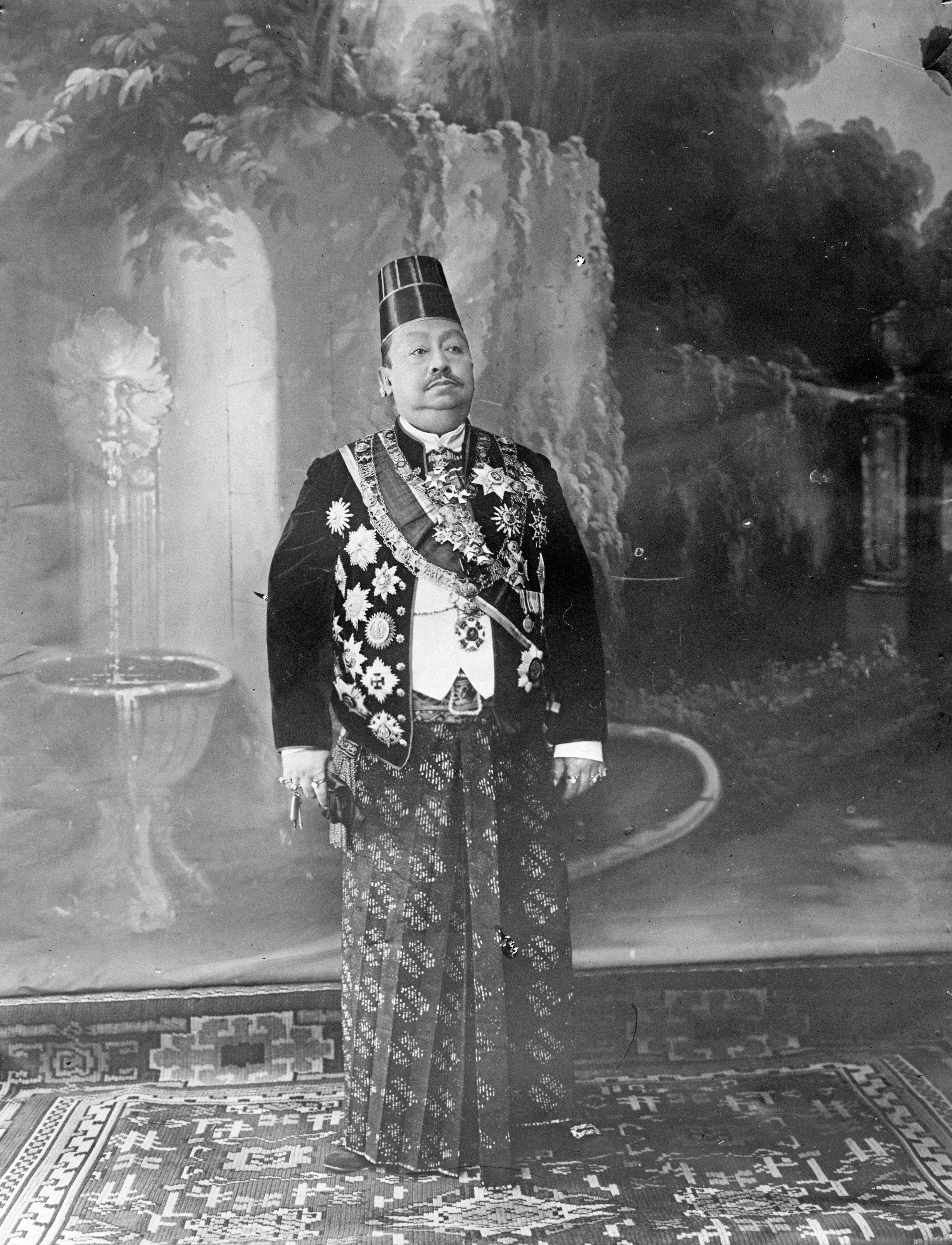 Negative. Portrait of Pakubuwono X, susuhunan of Surakarta